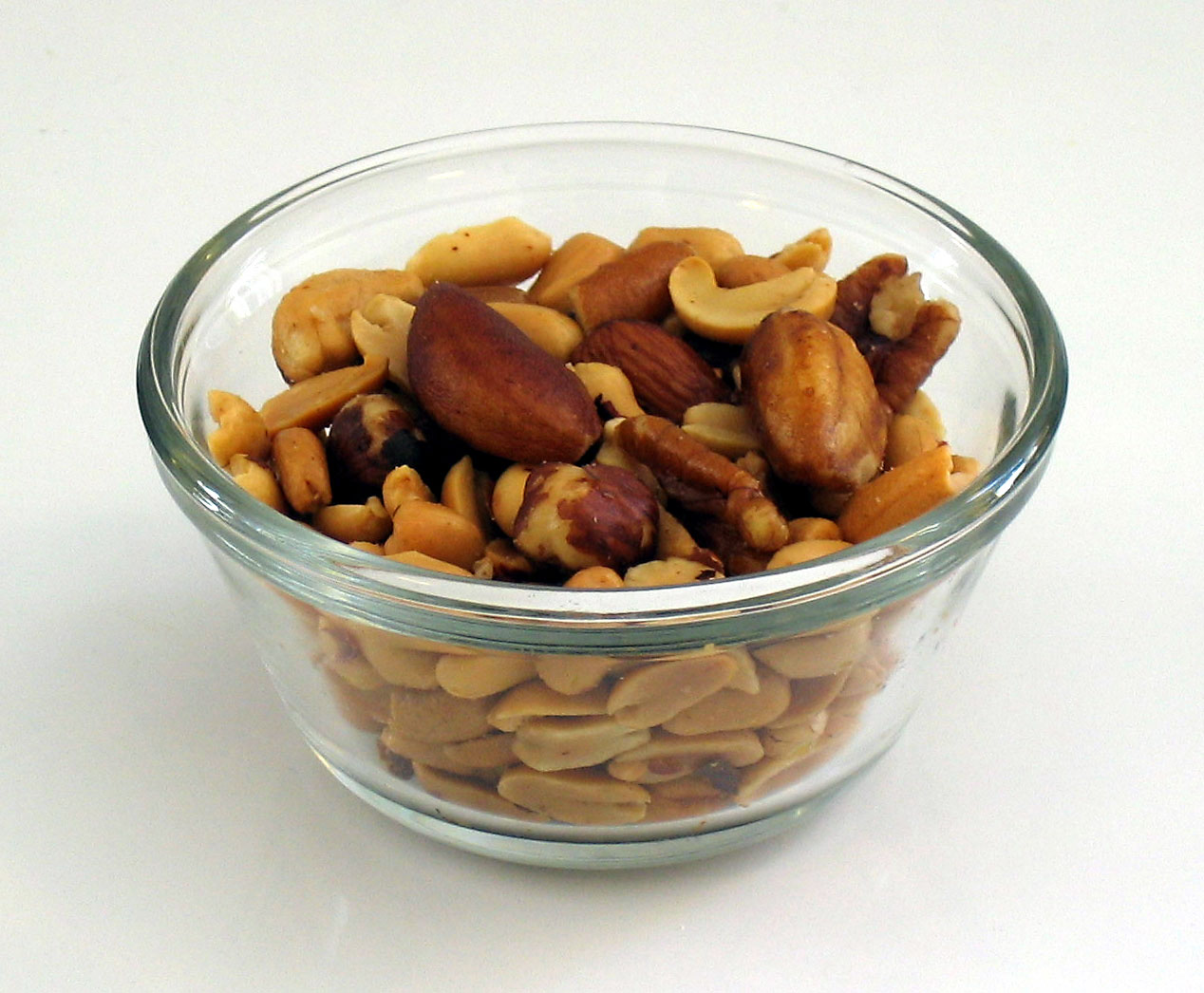 Small bowl of mixed nuts displaying large nuts on top and peanuts below, on white surface